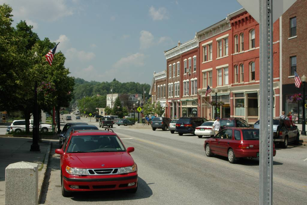 Town Center, Randolph Vermont, USA Source: Photograph taken by M.S.Maguire Copyright: ©2006 M.S.Maguire